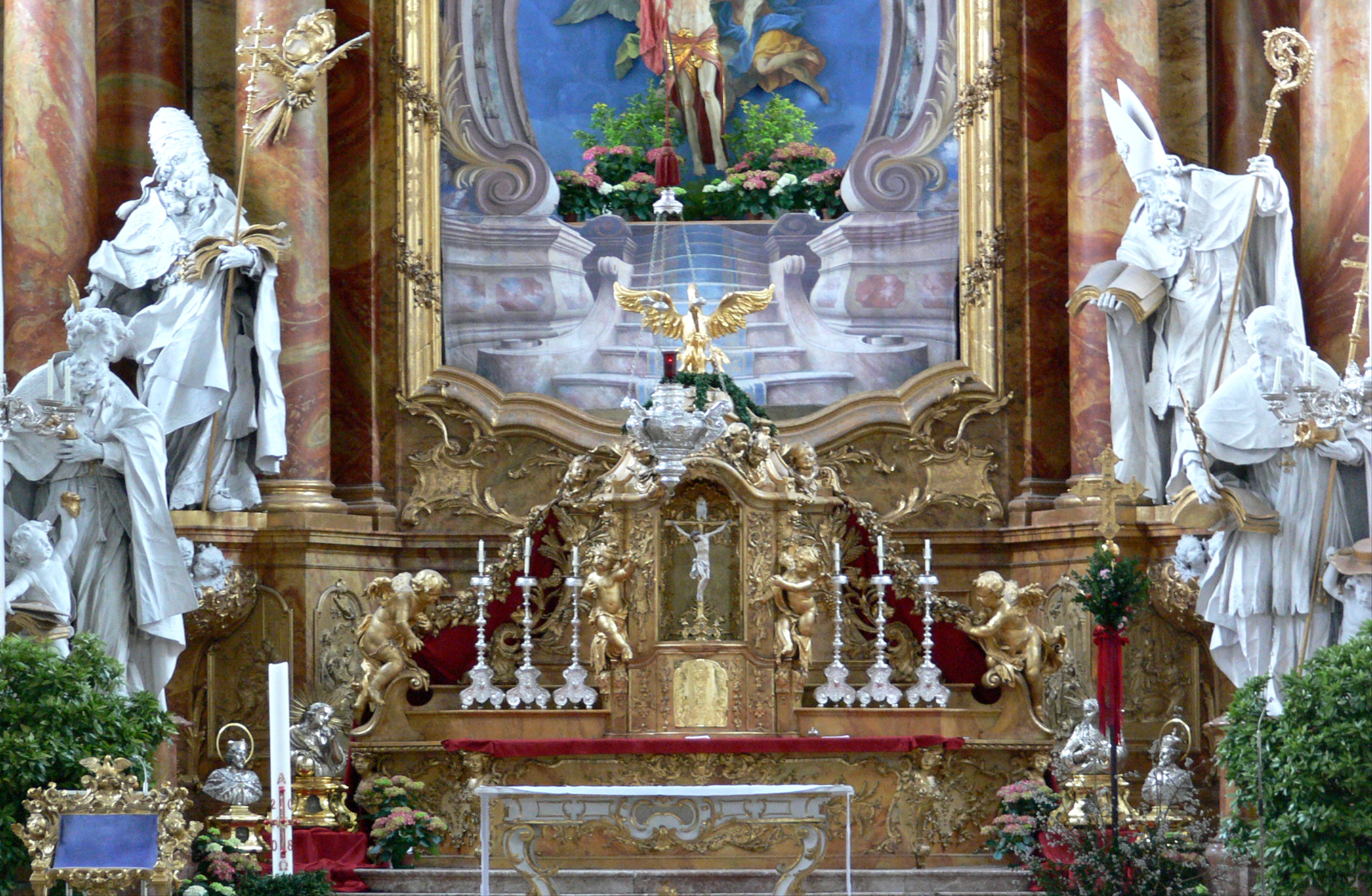 Marienmünster Dießen (ehem. Augustiner-Chorherren-Kirche Mariä Himmelfahrt, heute Pfarrkirche, Dießen am Ammersee) Hochaltar, Mensa mit Tabernakel, Entwurf: François de Cuvillißes d. Ä., Ausführung: Joachim Dietrich, um 1738 François de Cuvilliés (1695–1768) Alternative namesFrançois de Cuvilliés the ElderDescription Belgian sculptor and architect Date of birth/death23 October 169514 April 1768Location of birth/deathSoignies (Hainault)MunichWork locationMunichAuthority controlVIAF: 10118068 | LCCN: n86853808 | GND: 118523104 | BNF: cb14957414s | ULAN: 500007421 | WorldCat Joachim Dietrich (1690–1753) Alternative namesDietrich, Johann JoachimDescription German sculptor Date of birth/death16901753Location of birth/deathTheilenberg (bei Spalt)MunichWork locationMünchen